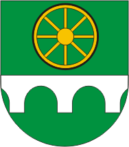 Coat of Arms of Märjamaa Parish.